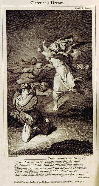 Clarences Dream 1780 Engraving by Blake after Thomas Stothard design for Richard III from William Enfield The Speaker